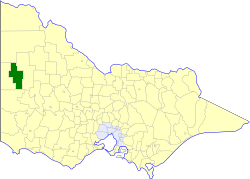 Location of the former Shire of Lowan within Victoria.